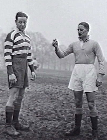 The team captains, Warrant Officer J.L. Forrest (1924), of the .10 Squadron team (left), and Flight Lieutenant C.B. "Bruce" Andrew (251991), of the R.A.A.F. Headquarters’ team at the toss of the coin, in the Australian Rules Football match at Hyde Park, London, on 8 January 1944.